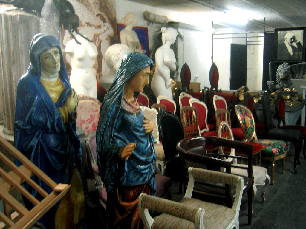 Mannheim, Germany: Nationaltheater, props storage